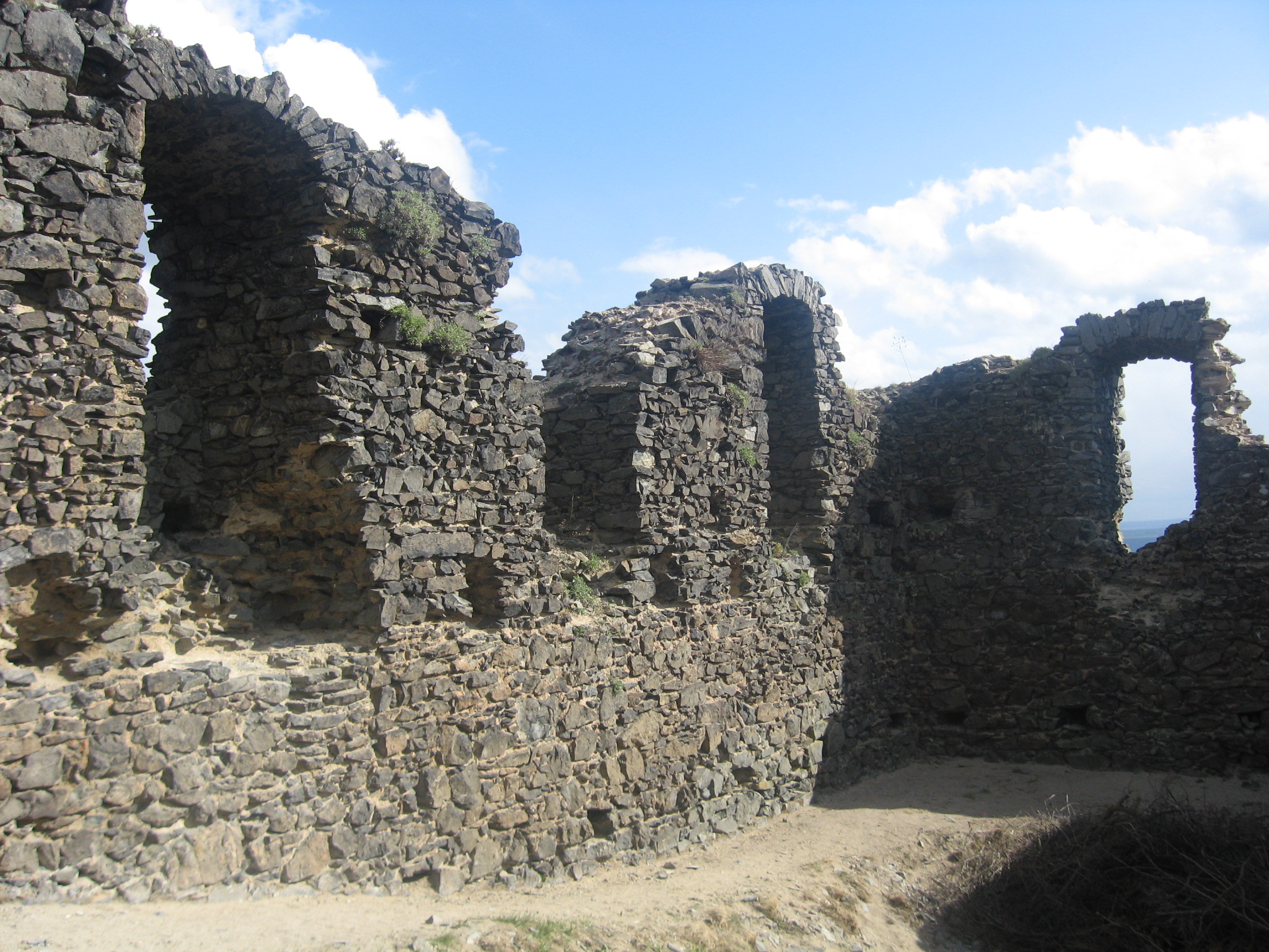 Košťálov Castle (Czech Republic) - Inside of the Palace